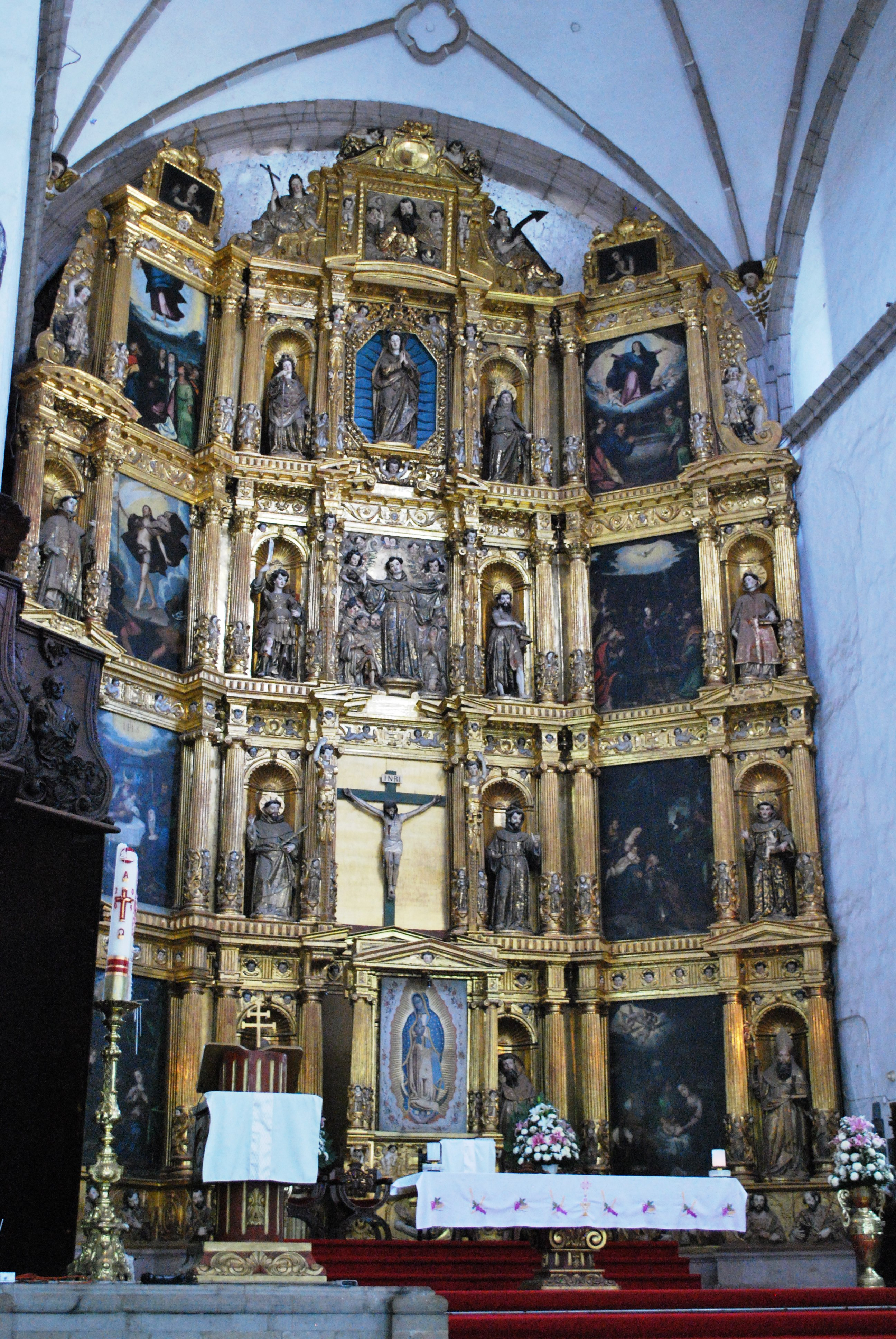 Main altar of the San Bernadino de Siena Parish Church in Xochimilco, Mexico City